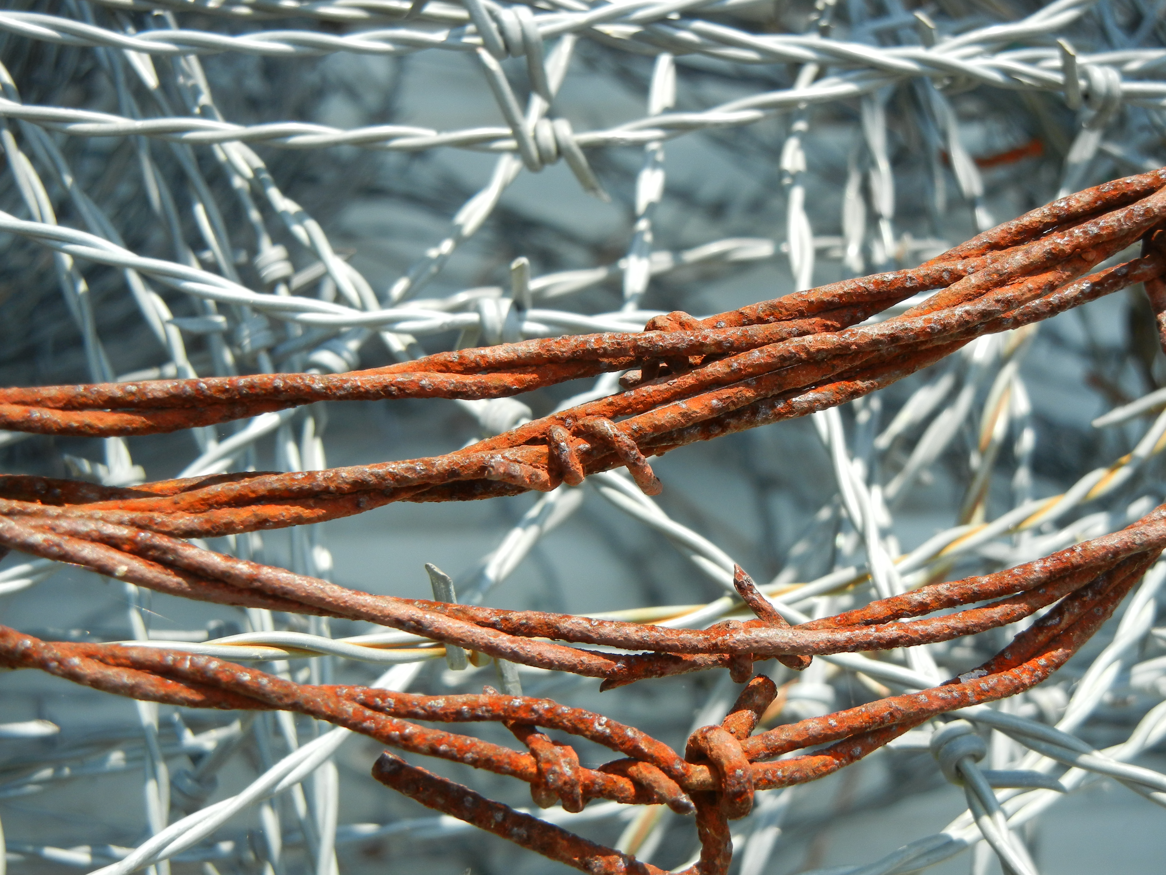 Roll of rusty barbed wire on a farm